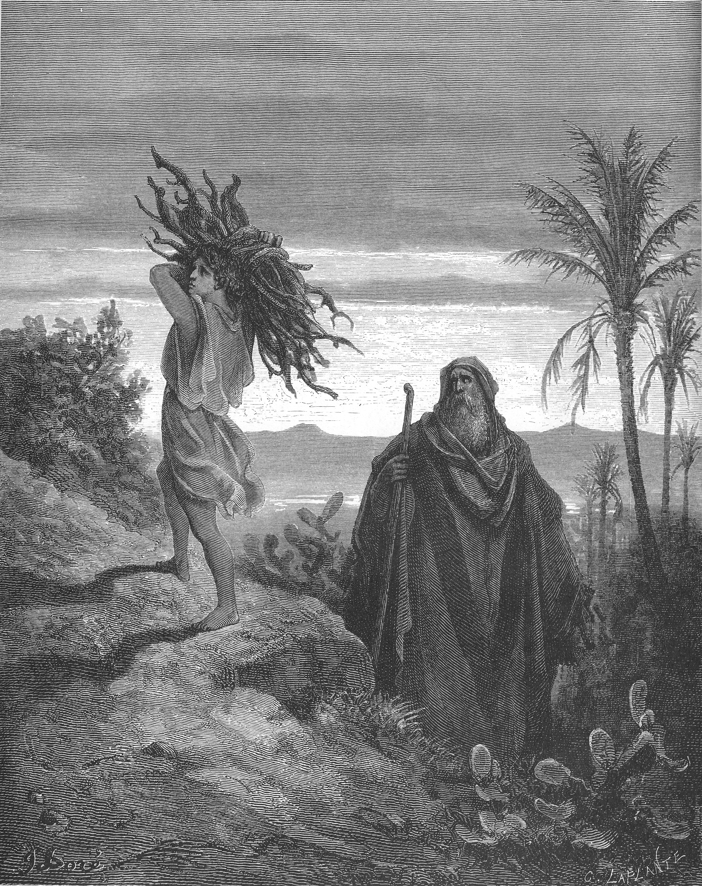 The Testing of Abraham's Faith (Gen. 22:2-19)